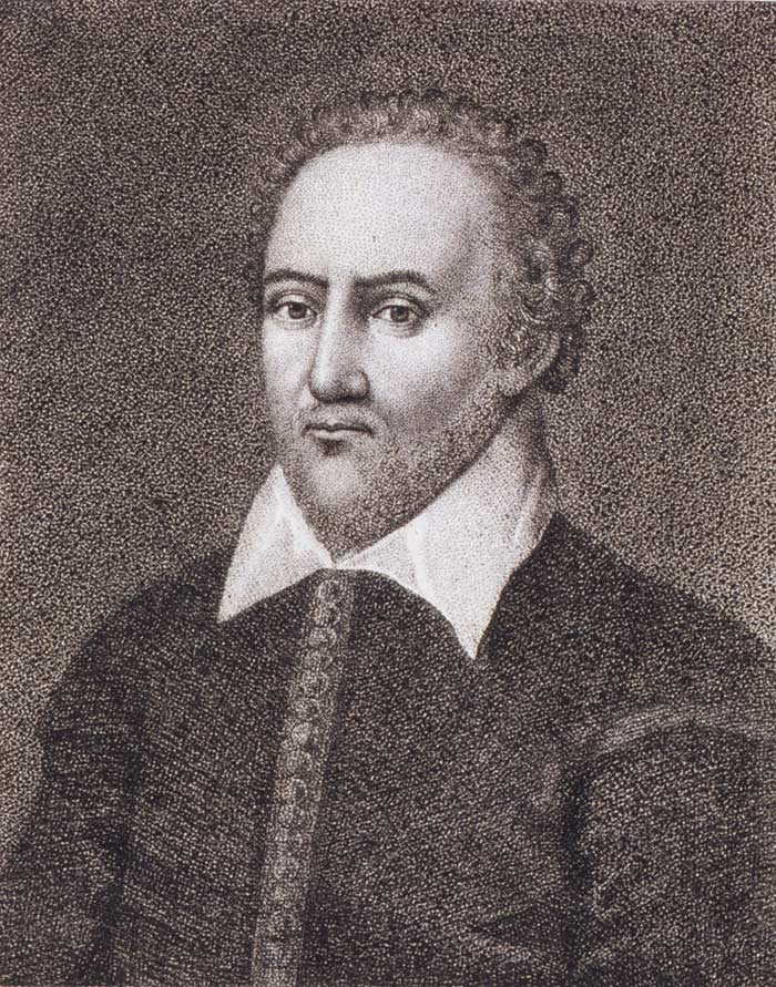 Richard Burbage